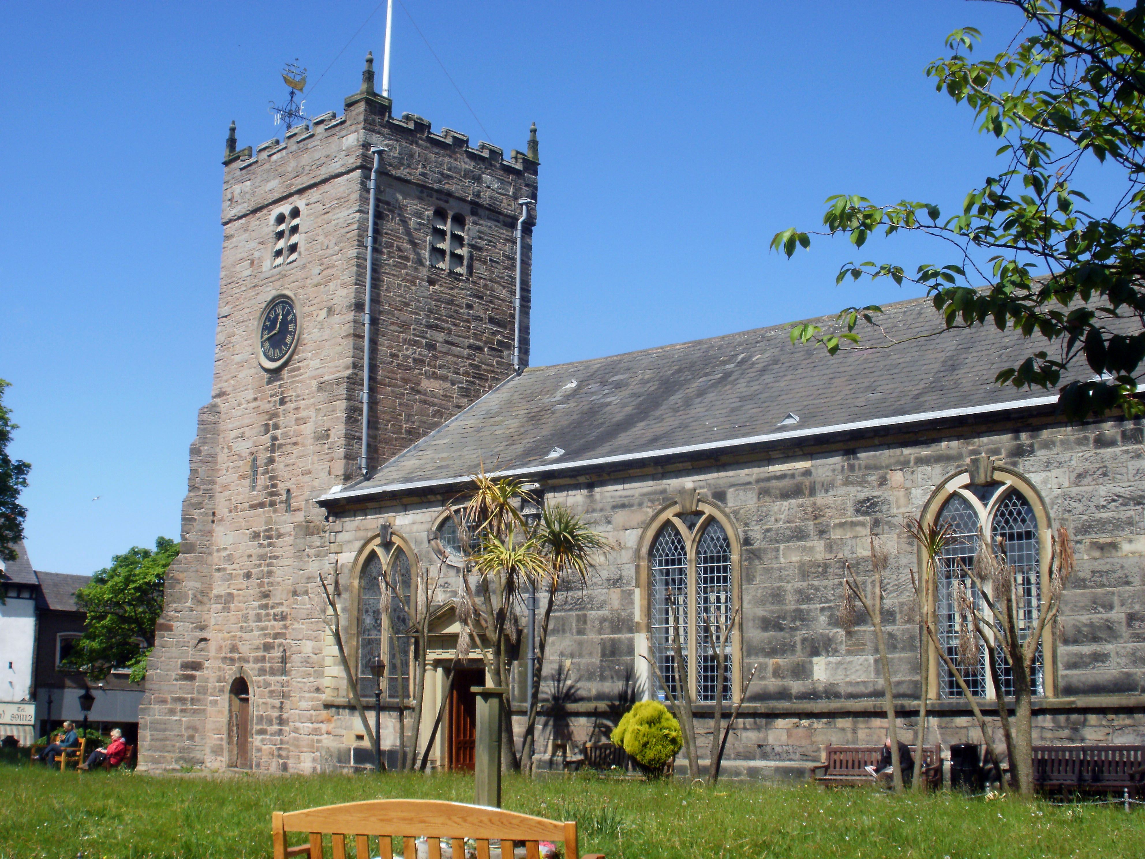 St Chad's Church, taken from the south of the church.